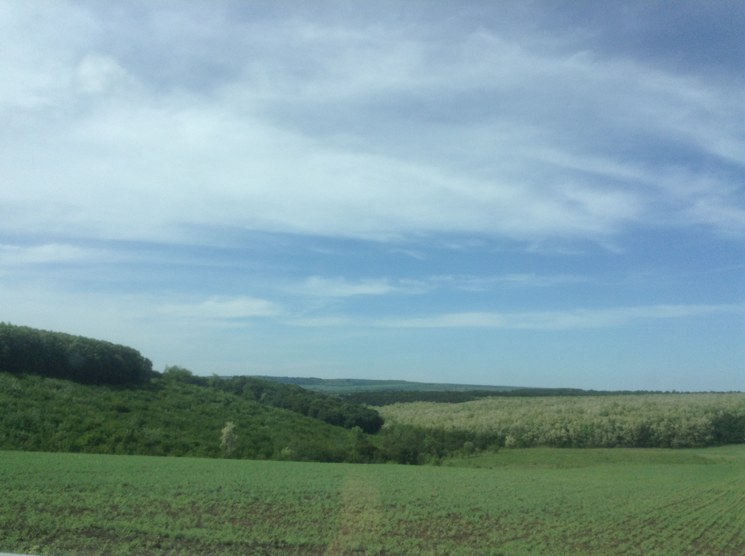 Ludogorie landscape